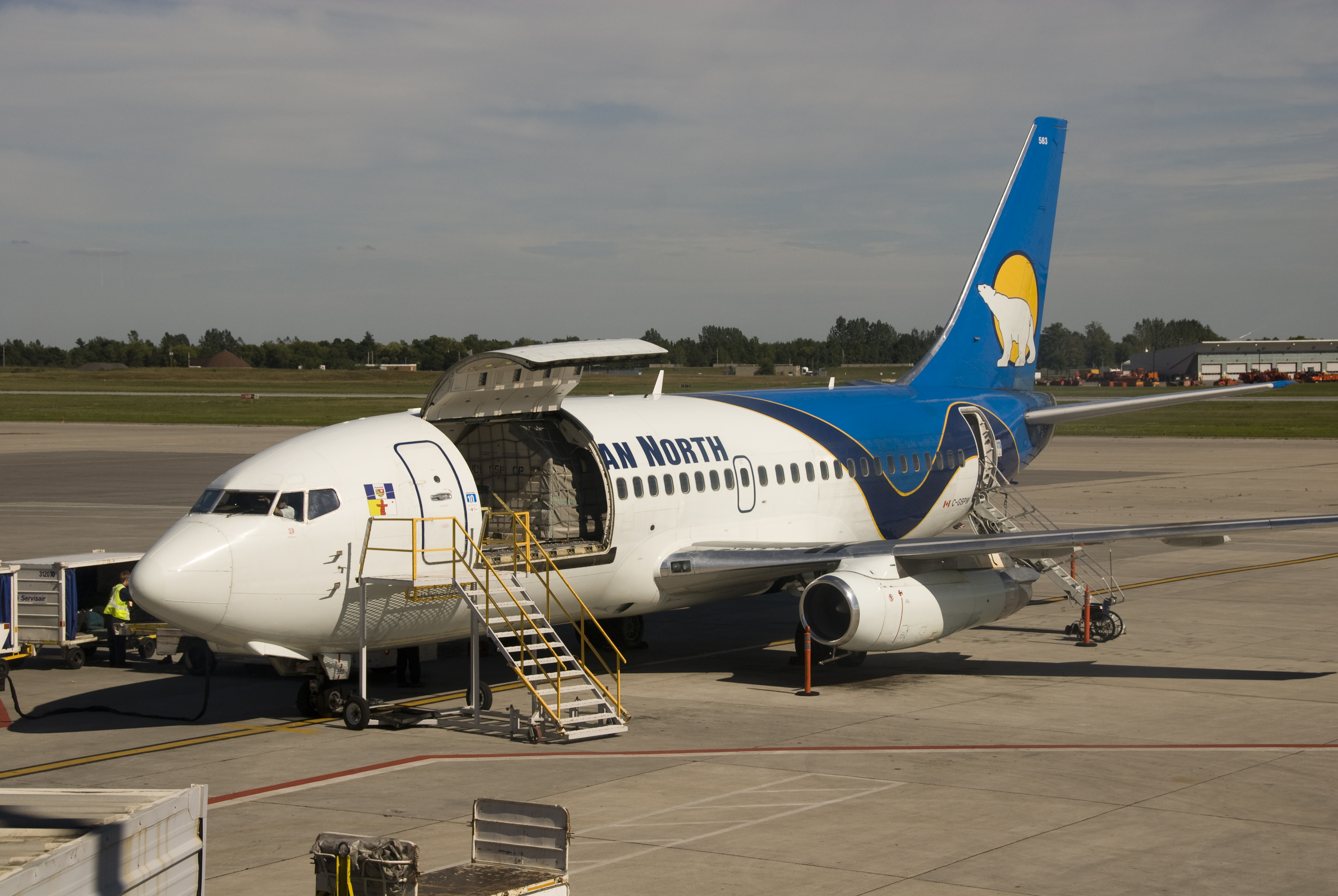 Canadian North Boeing 737-200 at Ottawa Macdonald-Cartier International Airport